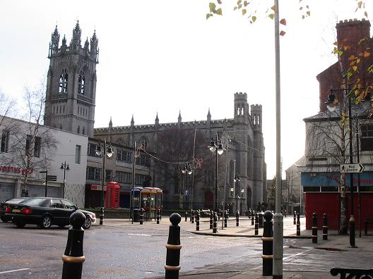 photo by Marcin Gajda